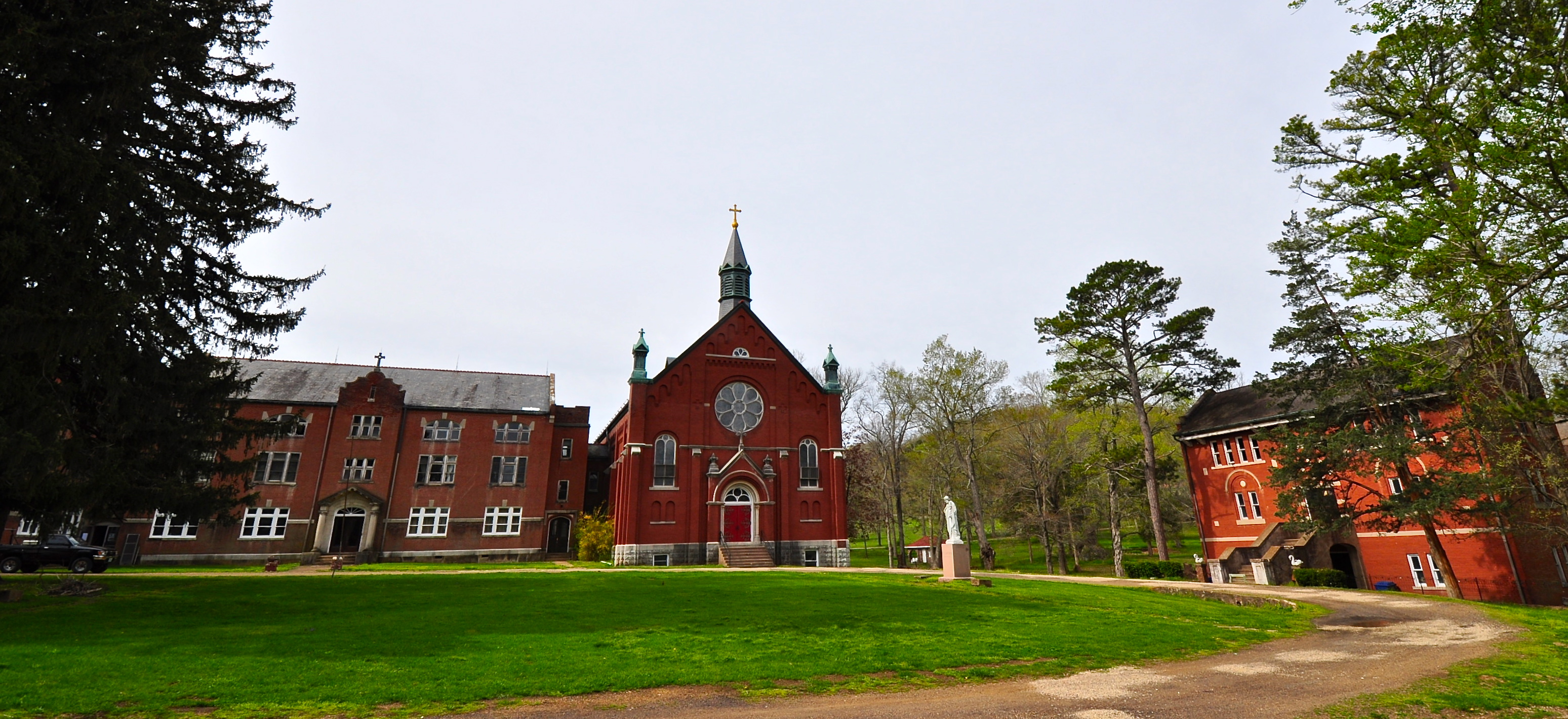 Located at Arcadia, Iron County, Missouri. Listed 1 July 1998.